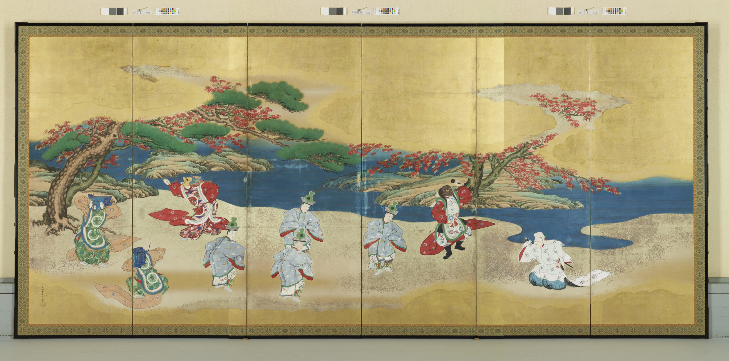 舞楽図屏風 左隻 作者：狩野永岳 時代：江戸時代 收藏地：東京国立博物館